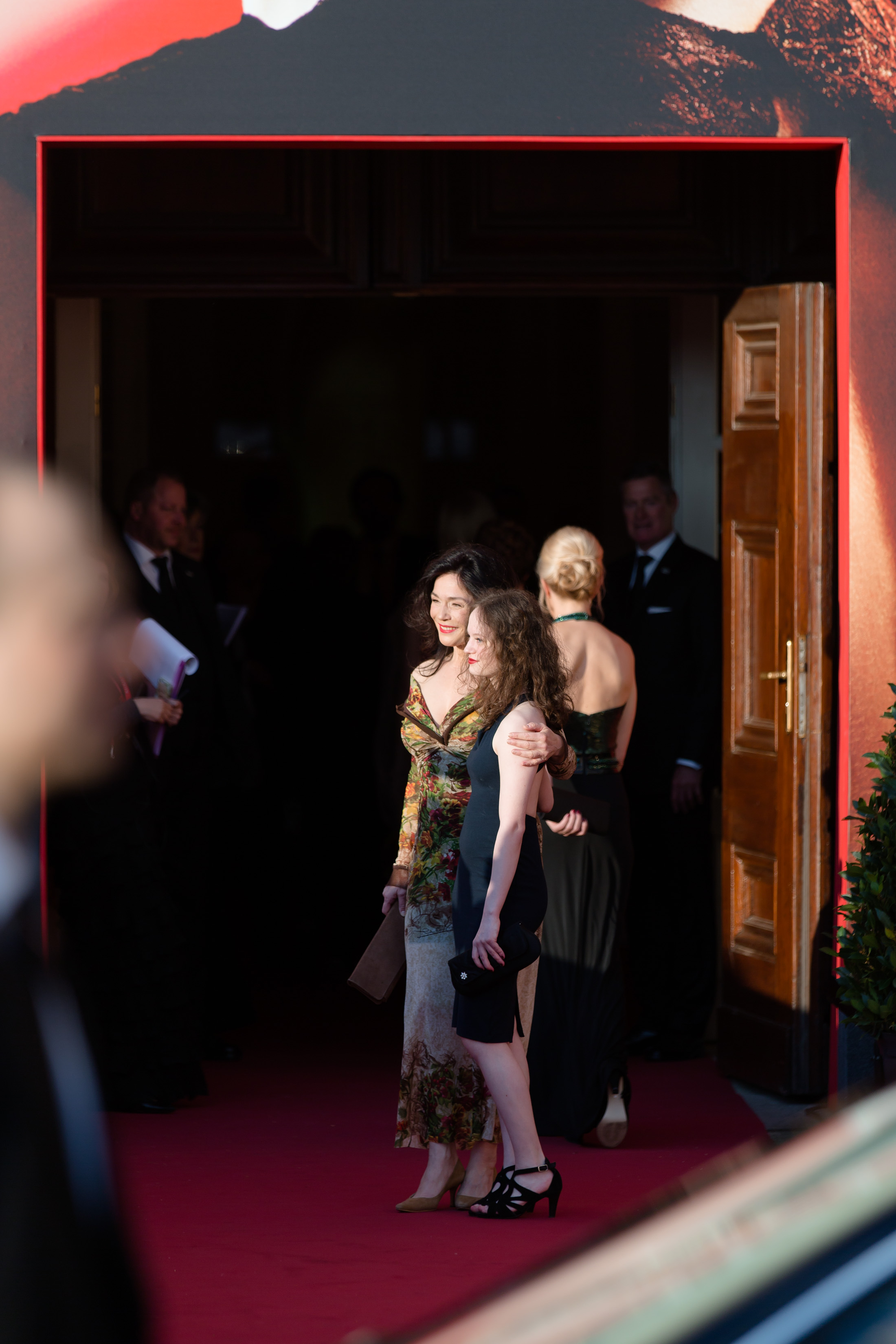 Julia Stemberger and daughter Fanny Altenburger on the red carpet of the Romy TV awards 2016 at Hofburg Palace in Vienna, Austria.